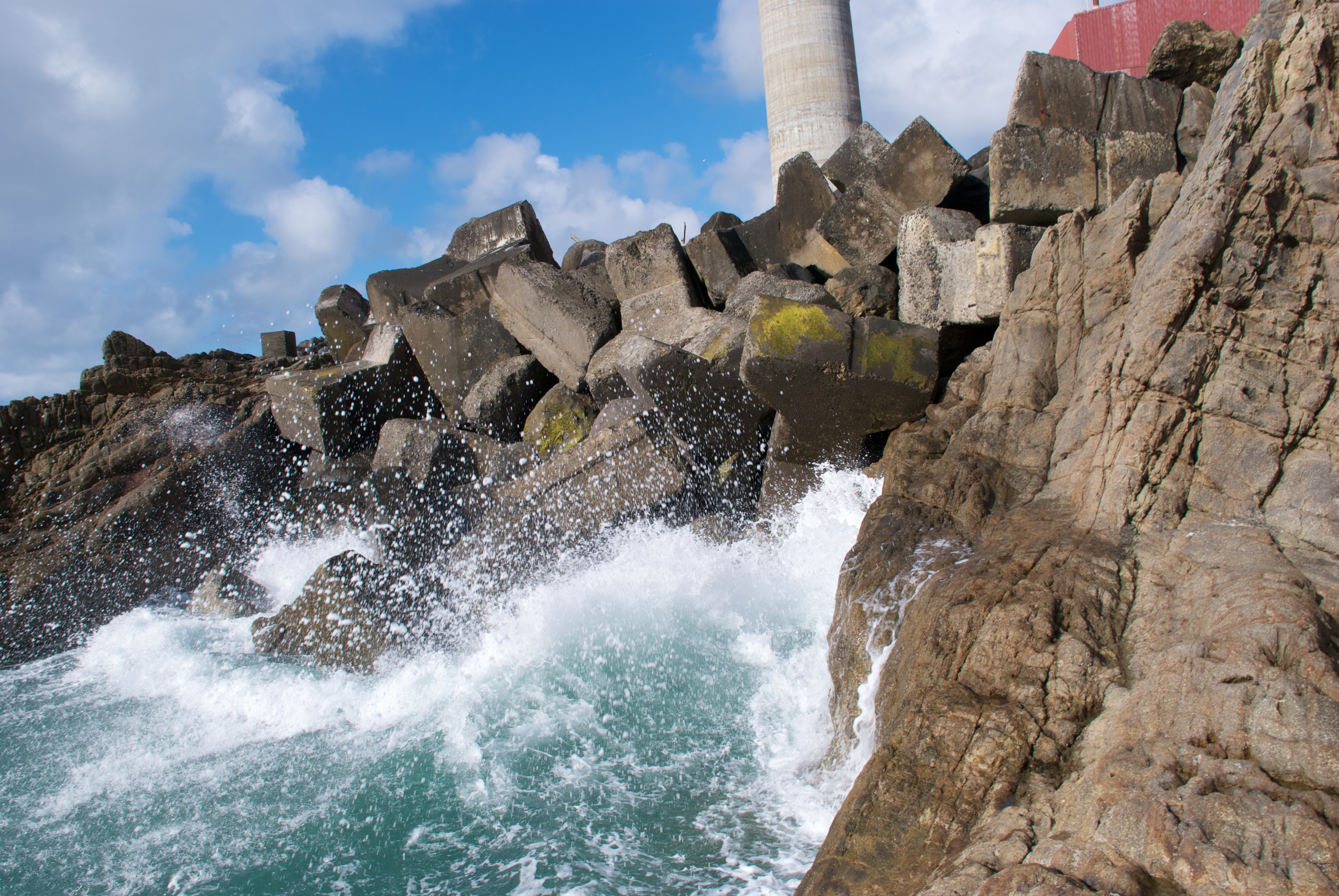 The base of Paritutu, with the chimney of the New Plymouth Power Station in the background.